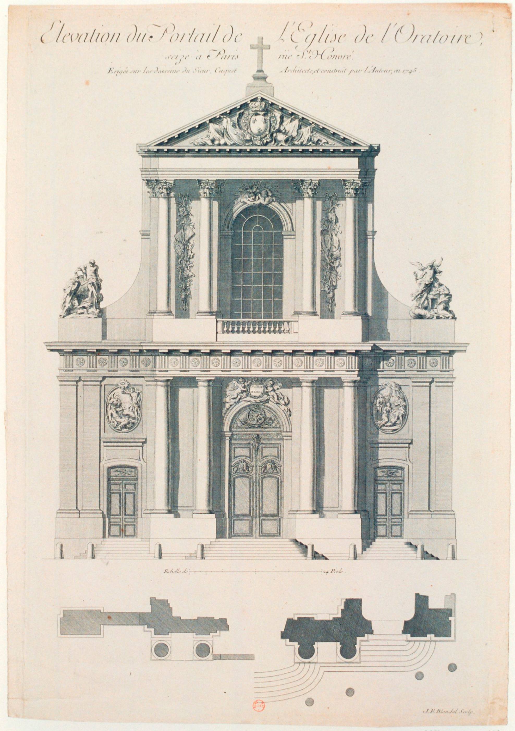 Great door of the Église de l'Oratoire on the rue Saint-Honoré in Paris